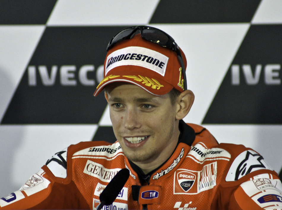 Casey Stoner 2010 Phillip Island 1